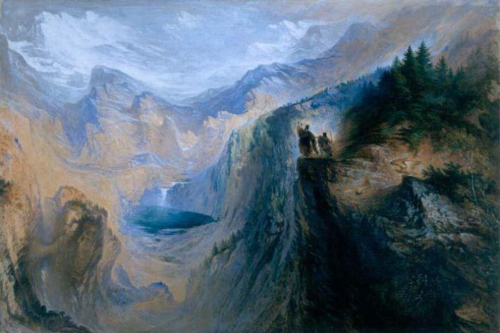 Watercolor painting by John Martin entitled "Manfred on the Jungfrau", from (1837). The scene was inspired by Lord Byron's poem "Manfred".